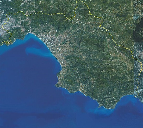 Province of Salerno